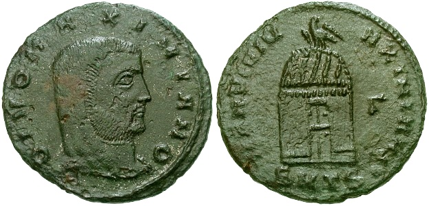 Roman emperor Galerius coin. Bronze follis, RIC 48 var (unlisted officina), gVF, Thessalonica mint, 4.87g, 23.6mm, 180o, postumous under Licinius, 311 A.D.; obverse DIVO MAXIMIANO, veiled head right; reverse MEM DIVI MAXIMIANI, domed shrine, closed doors, surmounted by eagle, G right SMTS in exergue